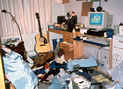 My room in Thunderbird Residence of the University of British Columbia at its worst, 2003